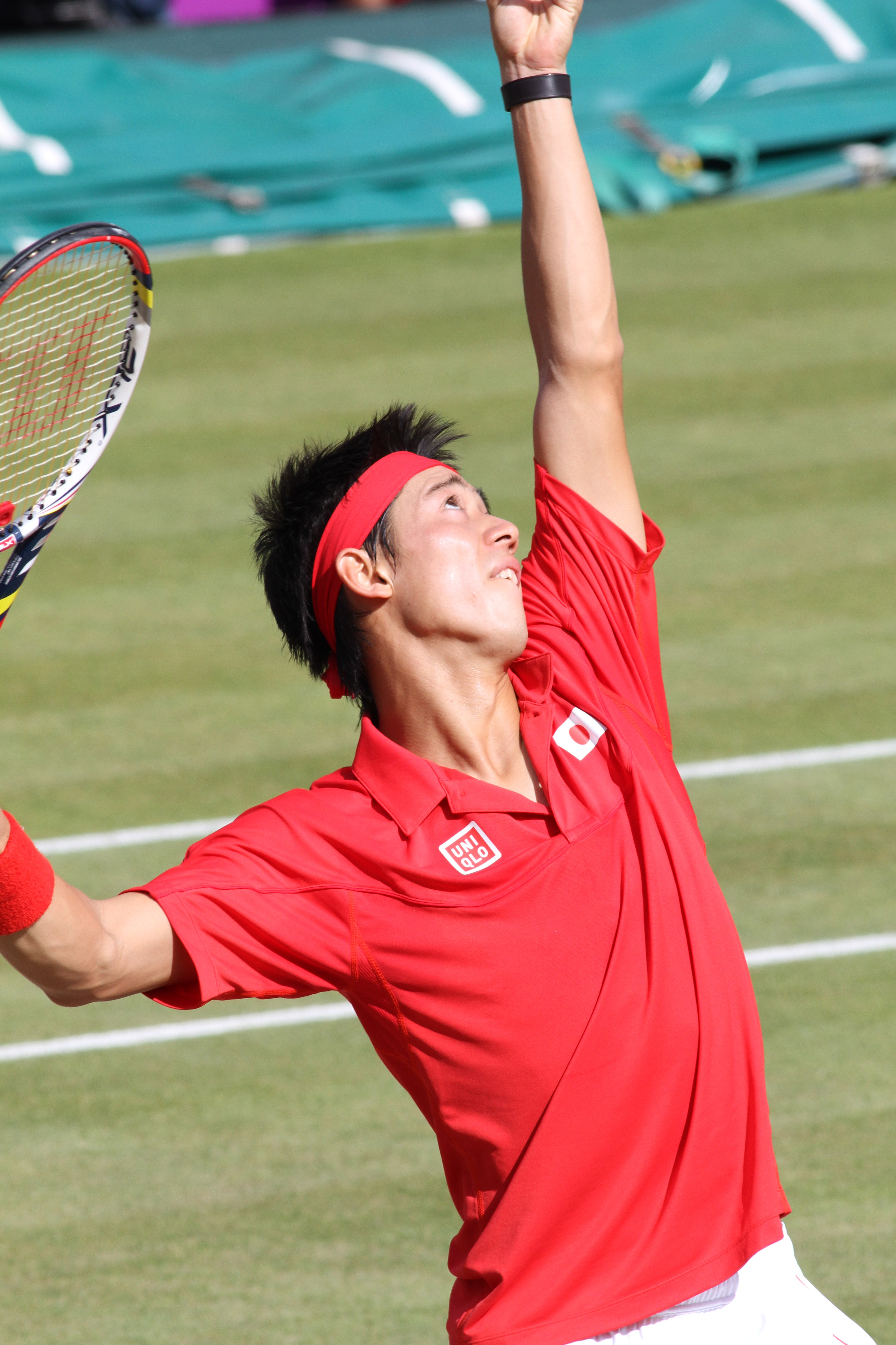 Posted via email from Globalite Magazine